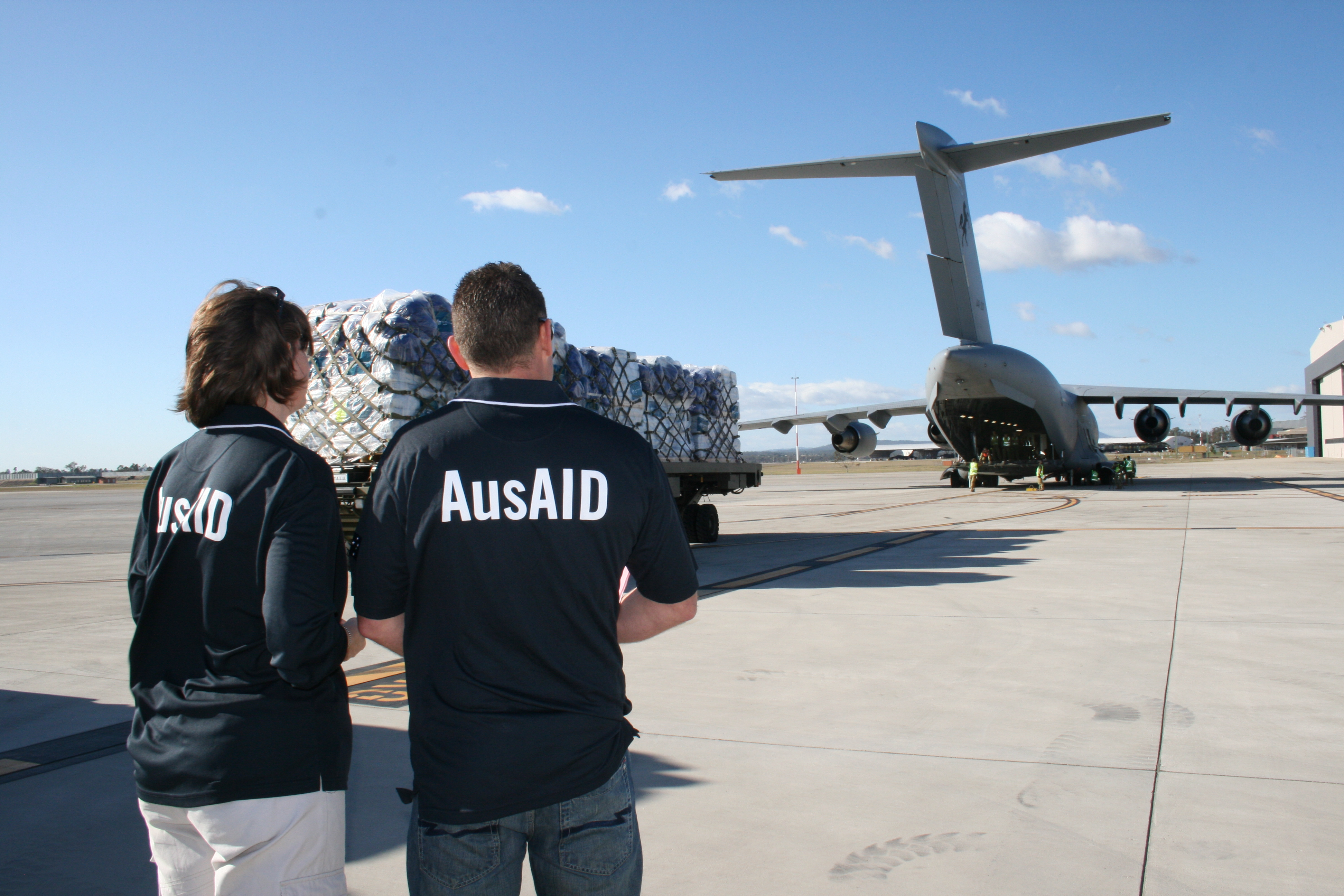 AusAID representatives supervising the loading of supplies in response to flooding in Pakistan. Amberley Queensland 2010. Photo: AusAID